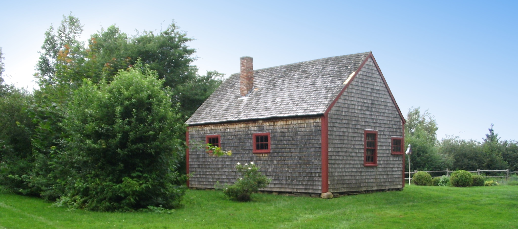 The old blacksmith shop in Grand-Pré, Nova Scotia. User Semhur on the French wikipedia, modified the original picture.